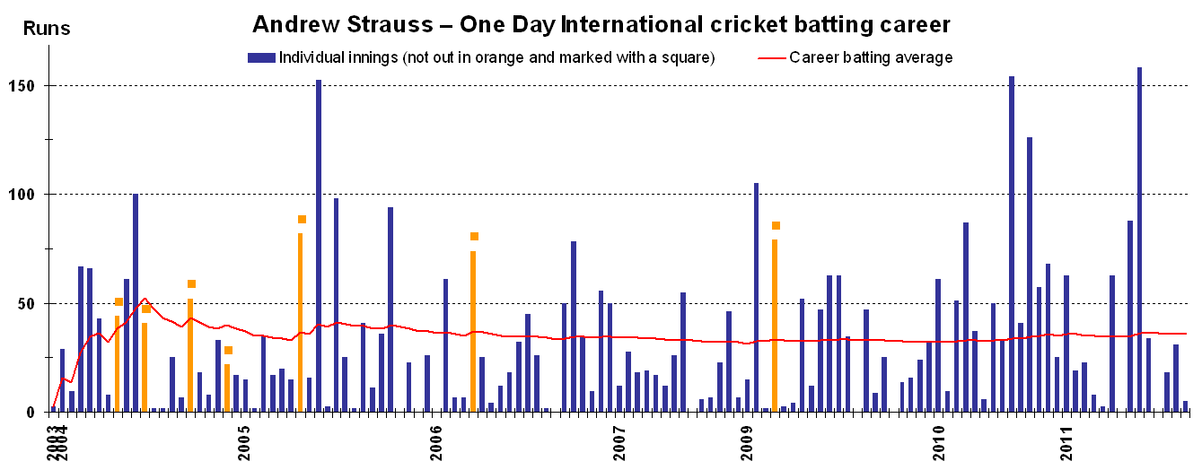 This graph details the One Day International cricket performance of English cricketer Andrew Strauss and was created by en.wiki user:EdChem. Each bar indicates a single ODI game, blue ones for innings in which he was dismissed, orange ones (marked with a square) for innings in which he batted but was not out. The red line shows his career batting average as at the end of each match. An alternative version, File:Andrew Strauss ODI batting career v2.png instead shows a 10 match moving average. The graph was generated with Microsoft Excel 2003, the resulting chart being copied to Adobe Photoshop 9 and saved in .png format, using data from Cricinfo [1] and Howstat [2]. This version is current as at 23 January 2012, which is also the date it was prepared; it was uploaded the following day. This graph details the One Day International cricket performance of English cricketer Andrew Strauss and was created by en.wiki user:EdChem. Each bar indicates a single ODI game, blue ones for innings in which he was dismissed, orange ones (marked with a square) for innings in which he batted but was not out. The red line shows his career batting average as at the end of each match. An alternative version, File:Andrew Strauss ODI batting career v2.png instead shows a 10 match moving average. The graph was generated with Microsoft Excel 2003, the resulting chart being copied to Adobe Photoshop 9 and saved in .png format, using data from Cricinfo [3] and Howstat [4]. This version is current as at 23 January 2012, which is also the date it was prepared; it was uploaded the following day.